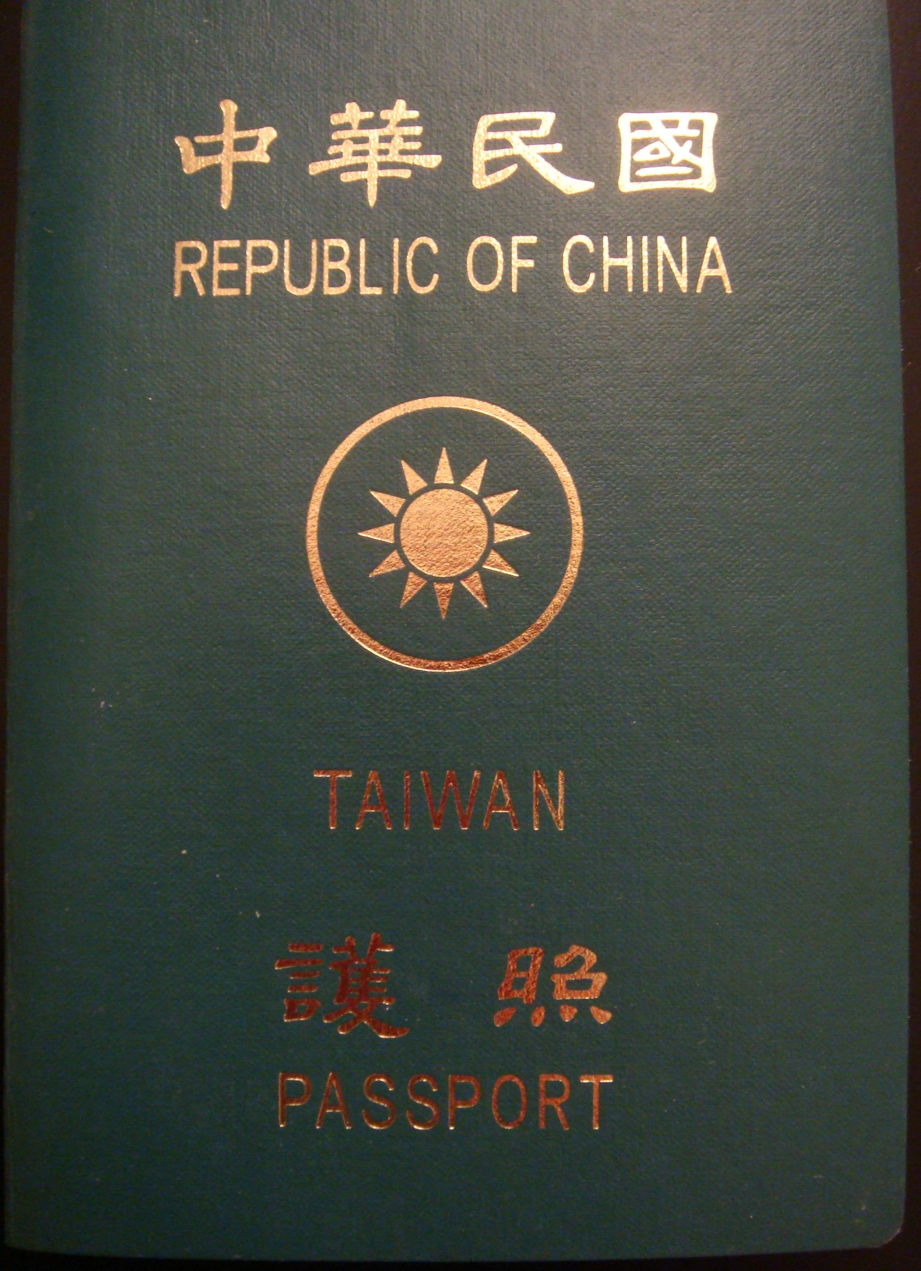 Passport of the Republic of China on Taiwan